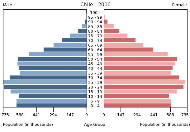 The population pyramid of Chile illustrates the age and sex structure of population and may provide insights about political and social stability, as well as economic development. The population is distributed along the horizontal axis, with males shown on the left and females on the right. The male and female populations are broken down into 5-year age groups represented as horizontal bars along the vertical axis, with the youngest age groups at the bottom and the oldest at the top. The shape of the population pyramid gradually evolves over time based on fertility, mortality, and international migration trends.